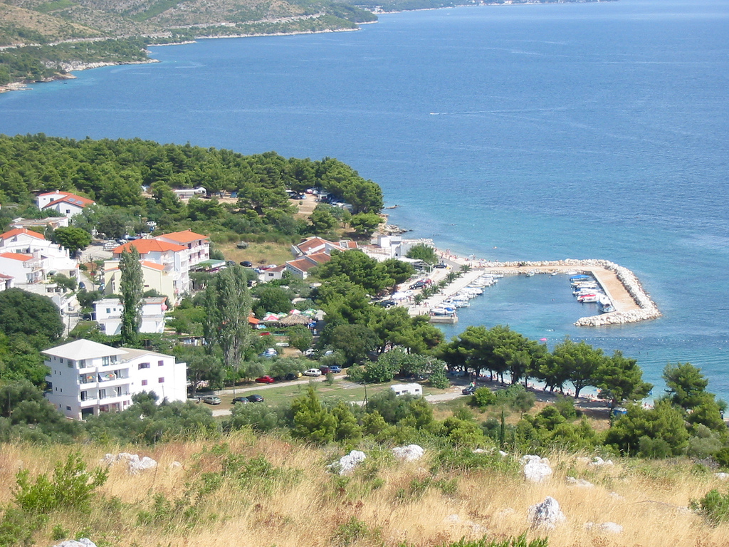 Zivogosce-Blato from the hill